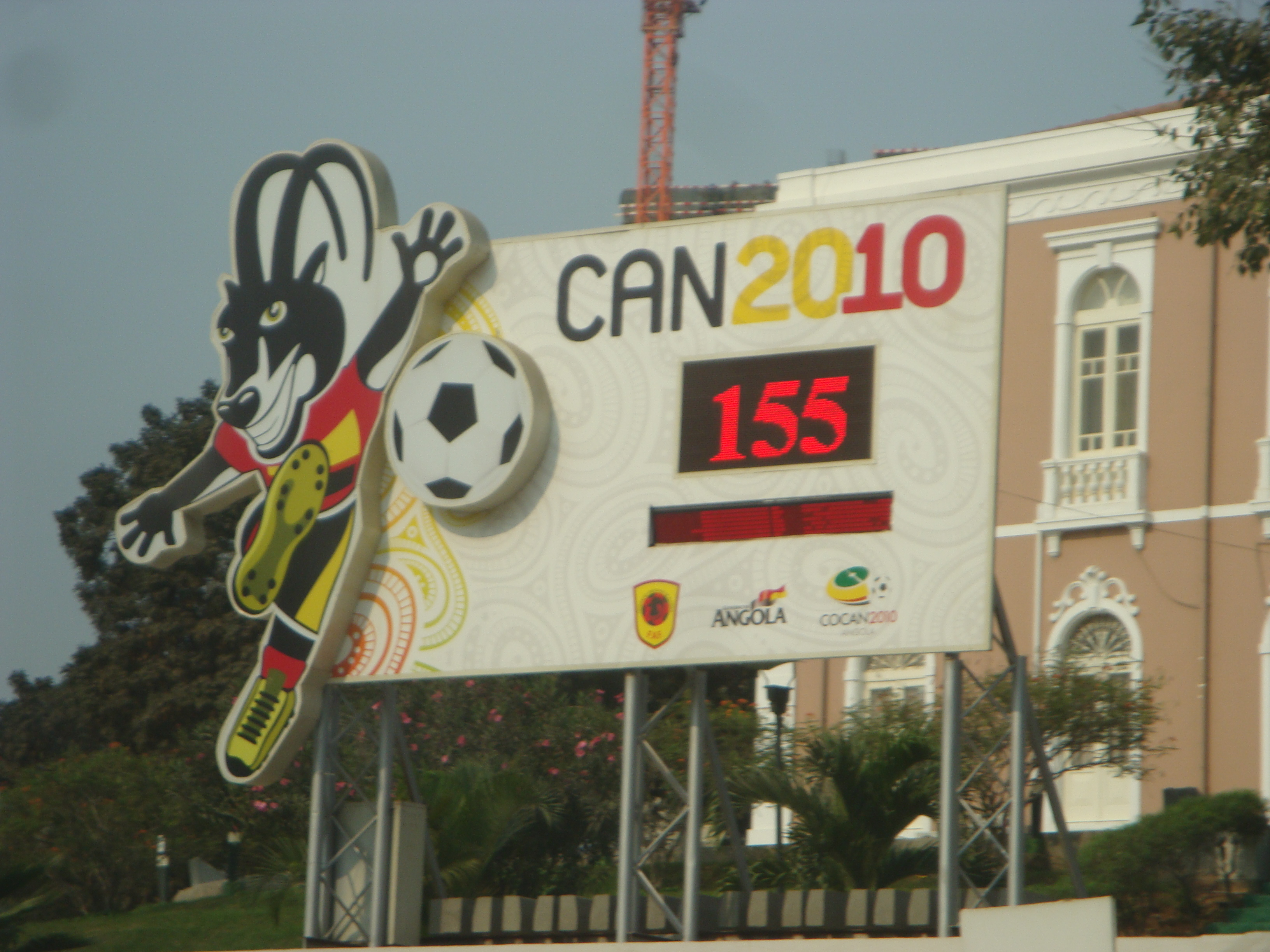 Countdown to the Africa Cup soccer tournament to be hosted in Angola at the end of the year.